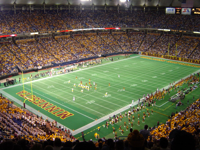 The Michigan Wolverines visit the Minnesota Golden Gophers at the Metrodome; the teams are rivals for the Little Brown Jug. This game is actually very well known in college football as one of the greatest comebacks in the sports history. Trailing 28-7 in the 4th quarter, the Wolverines managed to come from behind and win 38-35. The game received national coverage because it had been moved to a Friday in order to accommodate the Minnesota Twins playoff game on Saturday (the traditional day for college football games); as a result, it was the only major game on ESPN on Oct. 10, 2003. Adding to the hype, it was a rare occasion where an undefeated Minnesota was ranked higher than Michigan going into the game; Minnesota had not defeated Michigan since 1986. For more info, just read the ESPN College Football Encyclopedia (2005) and turn to what they consider greatest comeback in Michigan history (a team with over 100 years of history). You can also read a summary of this legendary game here: [1] Photo taken by Bobak Ha'Eri. Oct. 10, 2003. Please observe license and properly cite in use outside Wikipedia.